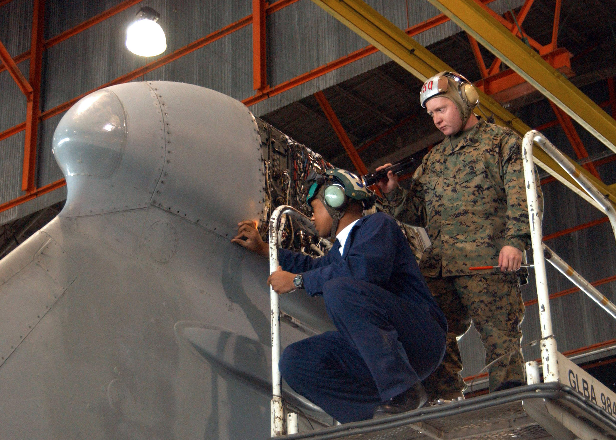 U.S. Marine Corps Staff Sgt. Timothy Colantoni performs quality assurance checks on the tail-fin of an EA-6B Prowler assigned to the "Vikings" of Electronic Attack Squadron One Two Nine (VAQ-129).